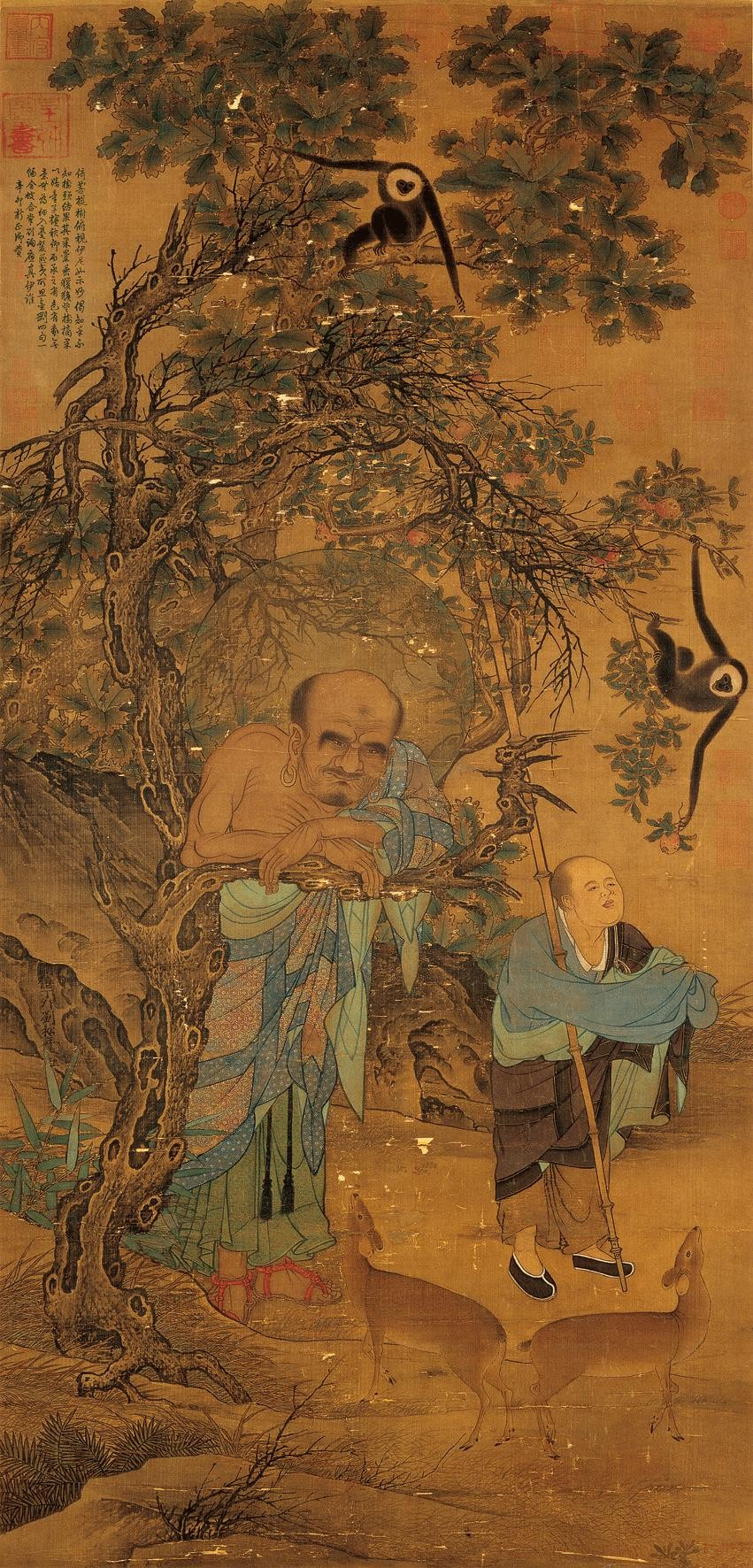 Luohan, hanging scroll, ink and color on silk, 117 x 55.8 cm. Located at the National Palace Museum, Taibei. One of a set of several.